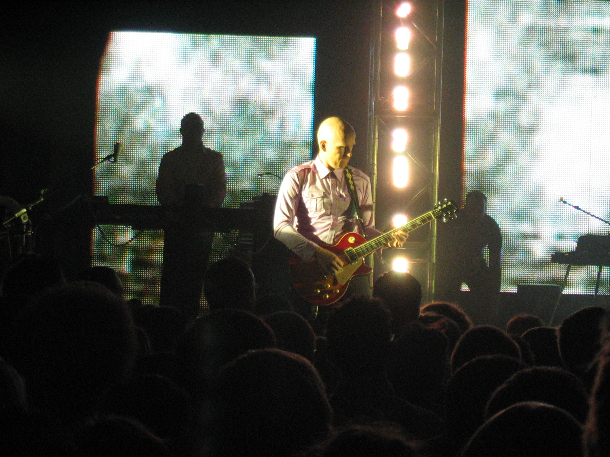 Stu G live in concert with Delirious? at The Vine, Dunfermline, 22 October 2004